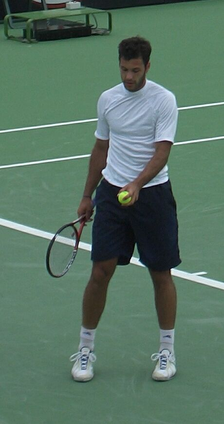 José Acasuso during his first-round match of the 2006 Australian Open. He played James Blake. Acasuso lost.